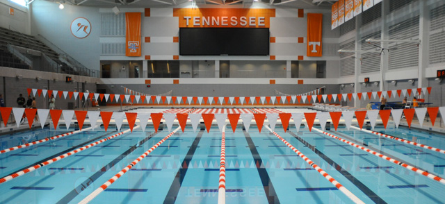 Allan Jones Aquatic Center